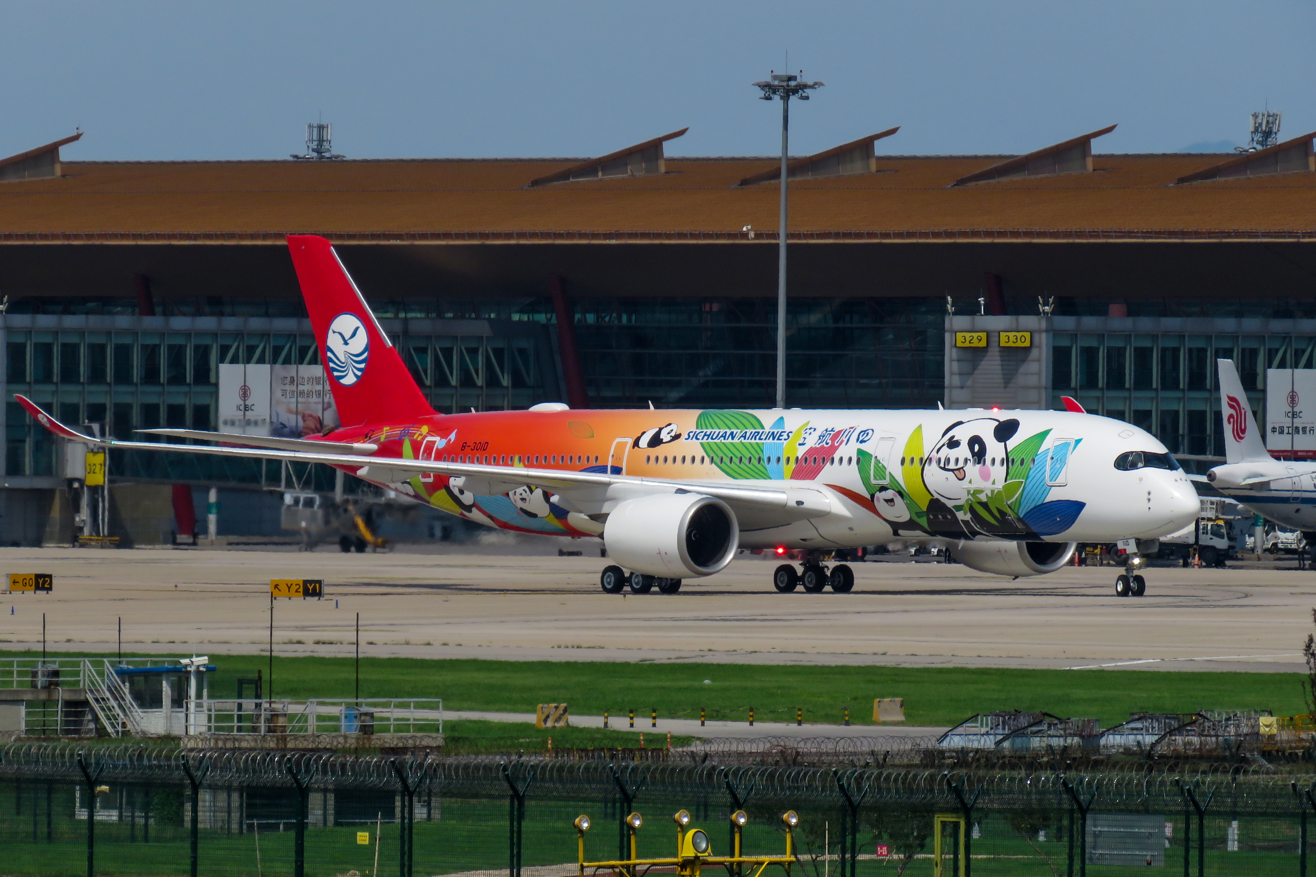 Sichuan 8885 from Chengdu. Warmly welcome the inaugural commercial flight of Sichuan Airlines' A350, although there's no water gate ceremony.